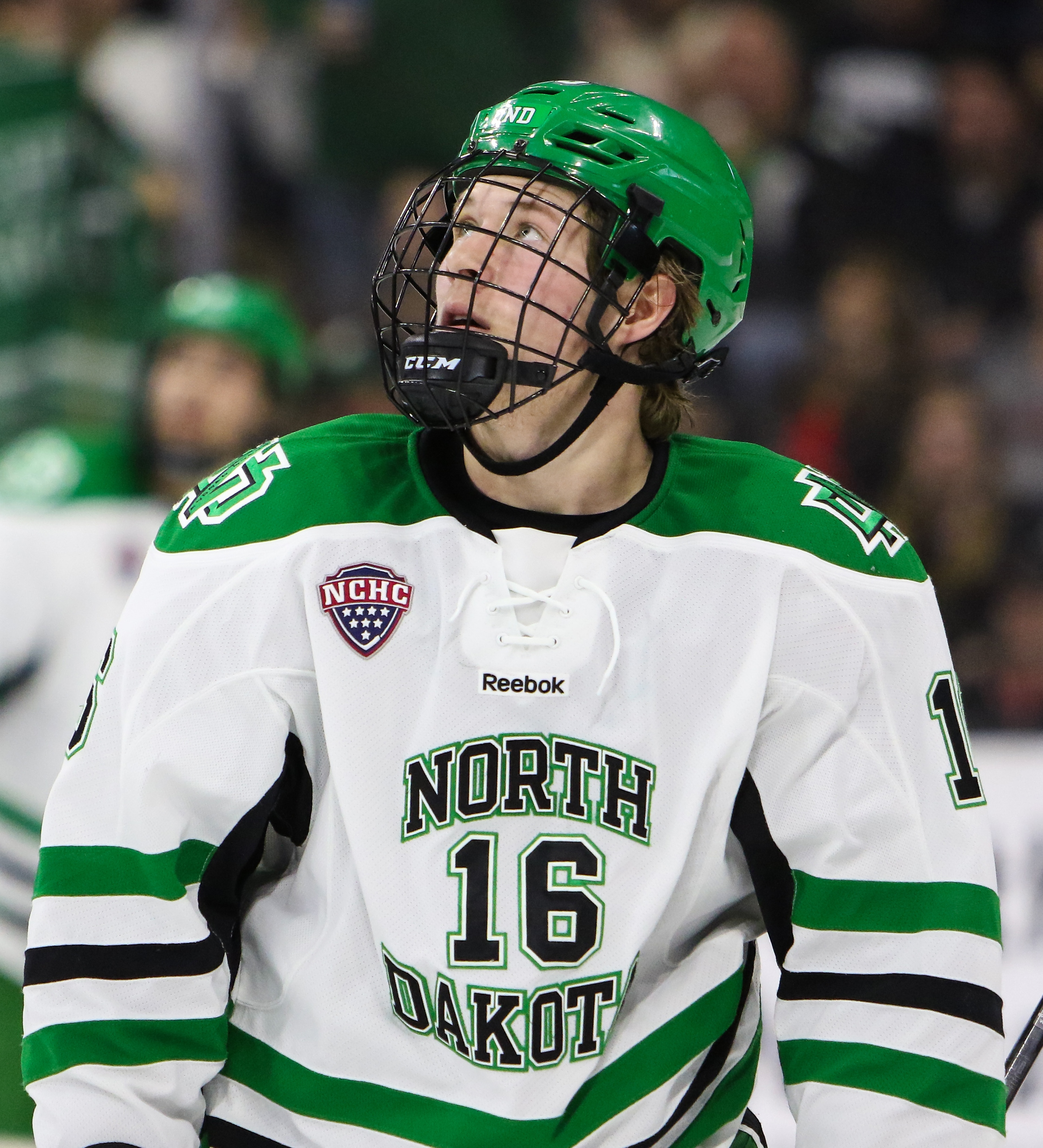 Minda Haas Kuhlmann , 2016 USAGE INSTRUCTIONS: You are welcome to share or publish to your own site or social media account, but you MUST credit me, Minda Haas Kuhlmann, or by my Twitter handle (@minda33) or Instagram (minda.haas).